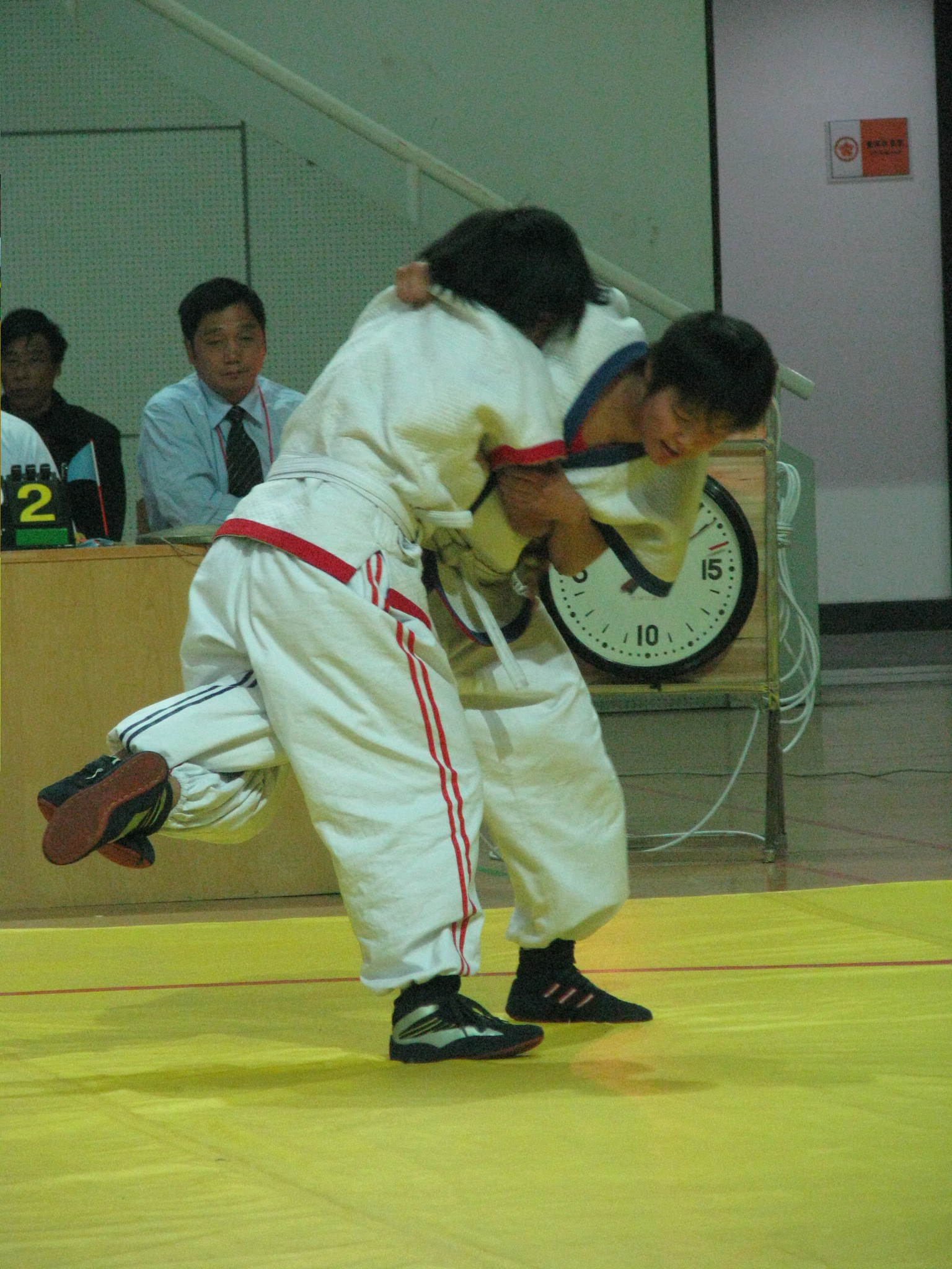 Chinese type wrestling, Shuaijiao, Taizhou Zhejiang 2007 11 24, 泰州 中国式摔跤